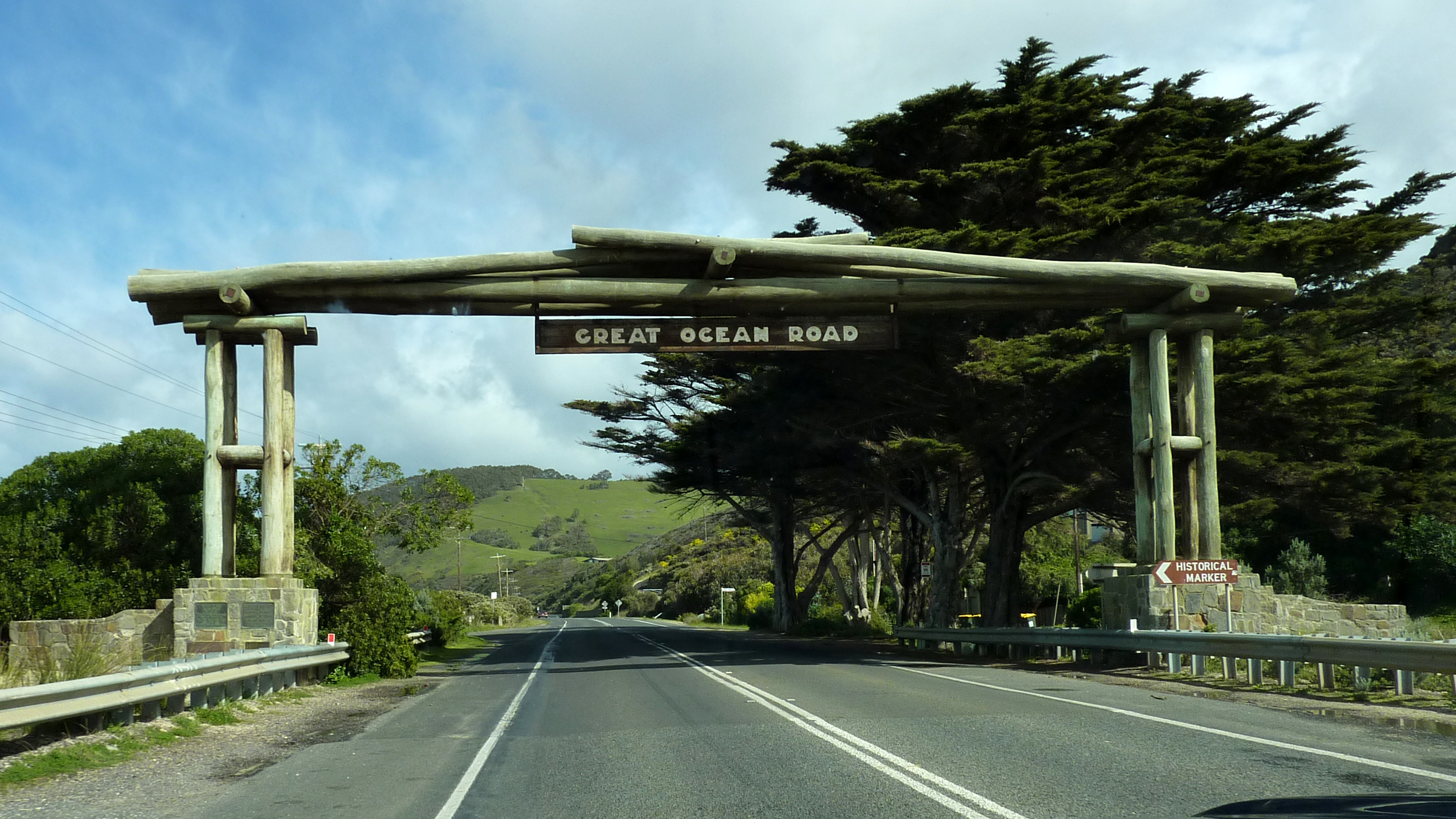 Sign at the eastern end of the Great Ocean Road, Australia.